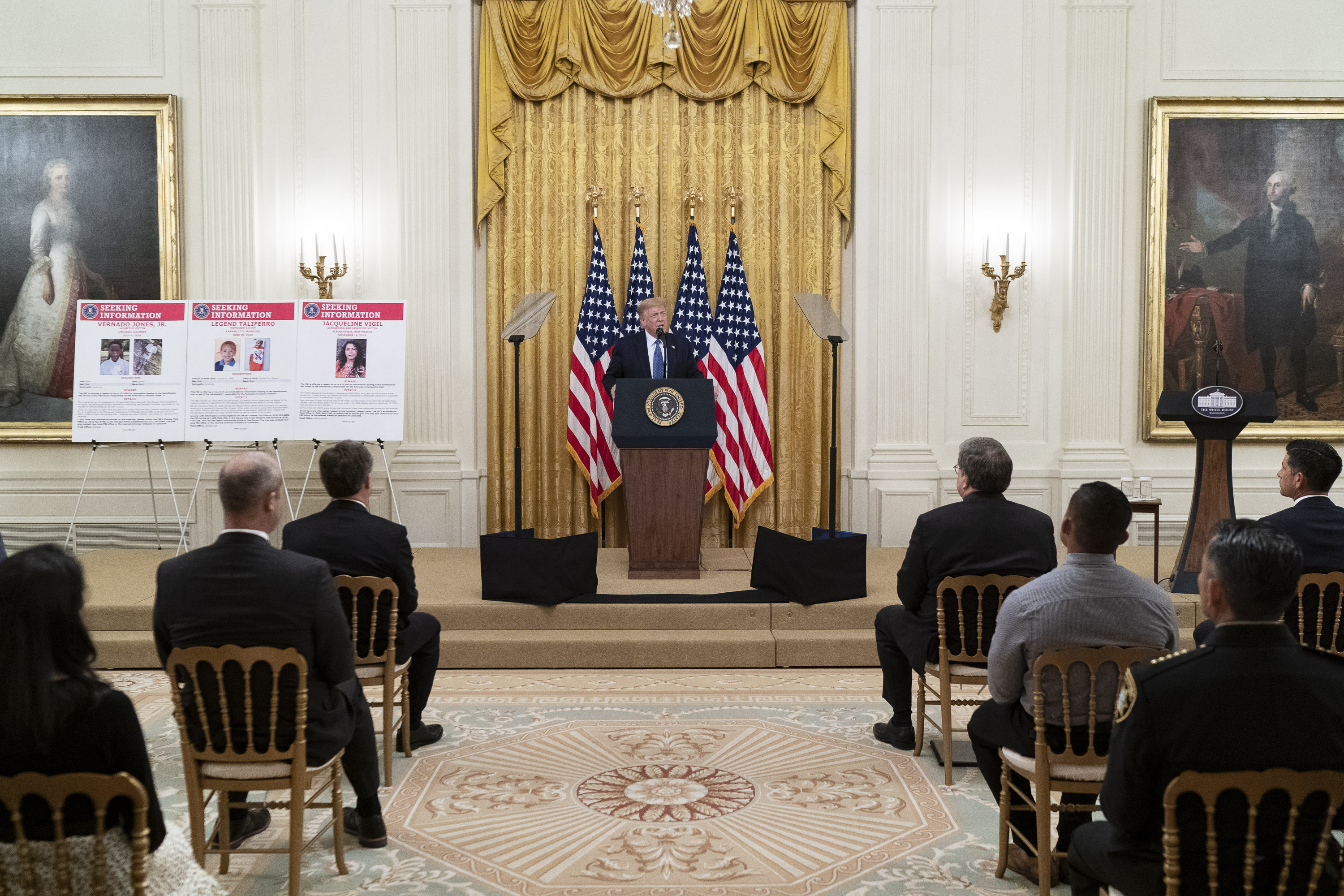 President Donald J. Trump addresses his remarks on Operation Legend: Combatting Violent Crime in American Cities Wednesday, July 22, 2020, in the East Room of the White House.(Official White House Photo by Shealah Craighead)